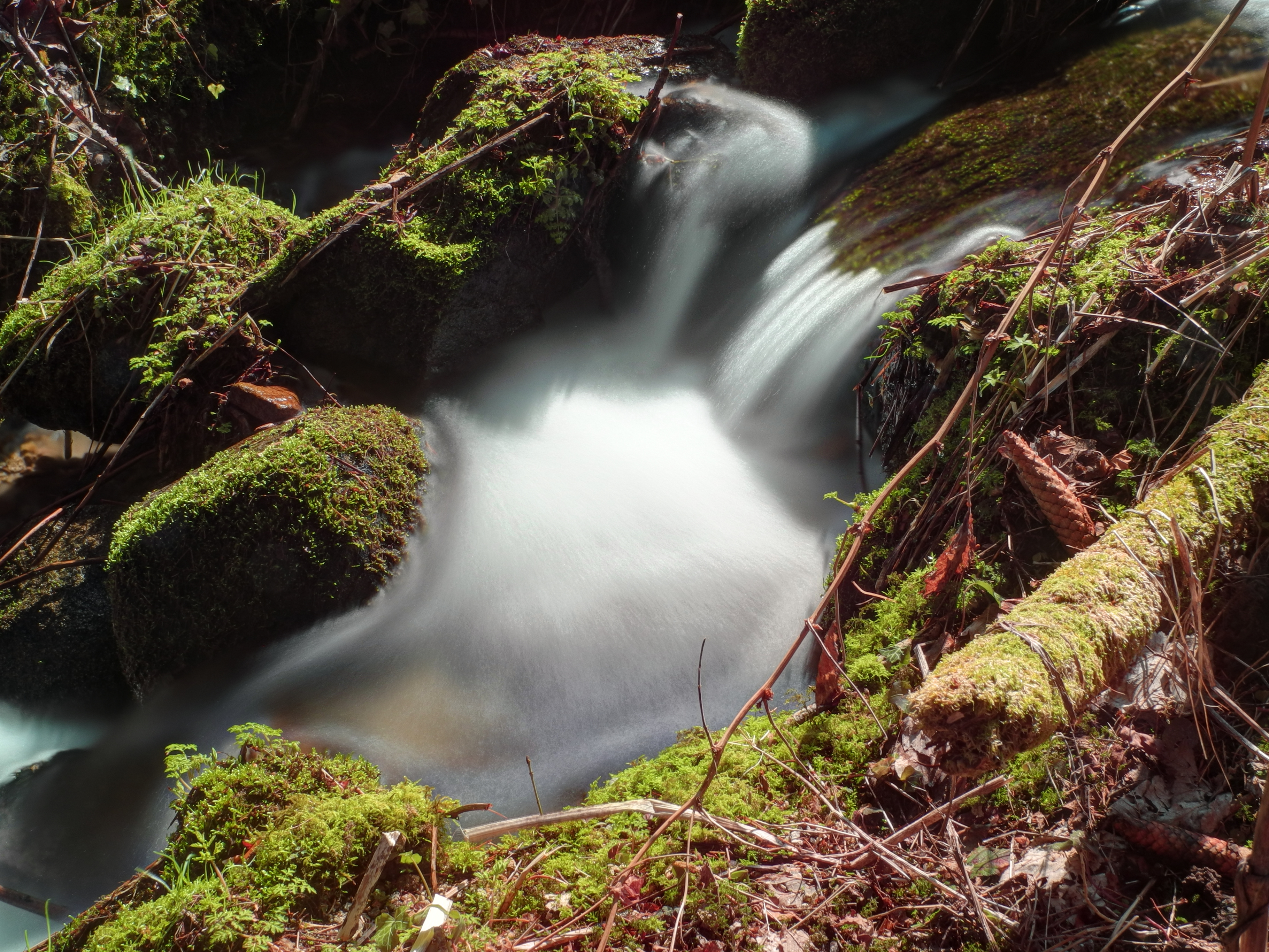 Ditch near the hamlet of Falleurgoutte, Granges-sur-Vologne (Vosges, Lorraine, France) fotographia HDR with a polarizing filter and a ND16.